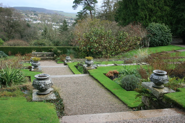 Cotehele House, the Terraced Garden. The Terraced Garden is on the east side of the House, and overlooks the Tamar Valley. In the distance are the houses of Calstock on the other side of the River Tamar. See 1604431.